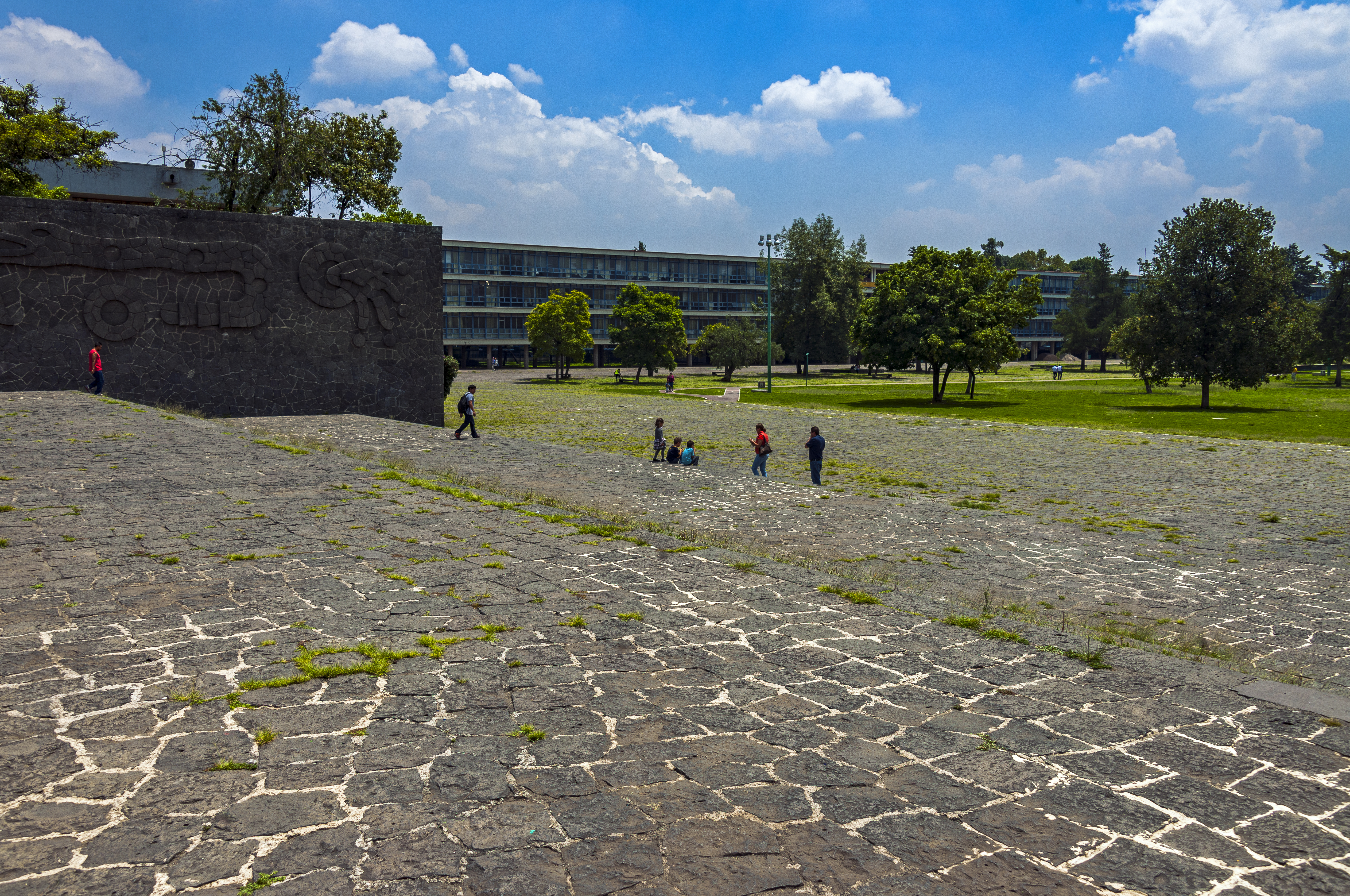 Rock flooring at Ciudad Universitaria in Mexico City, cut from the volcanic bedrock on the site during its construction in the 1950s